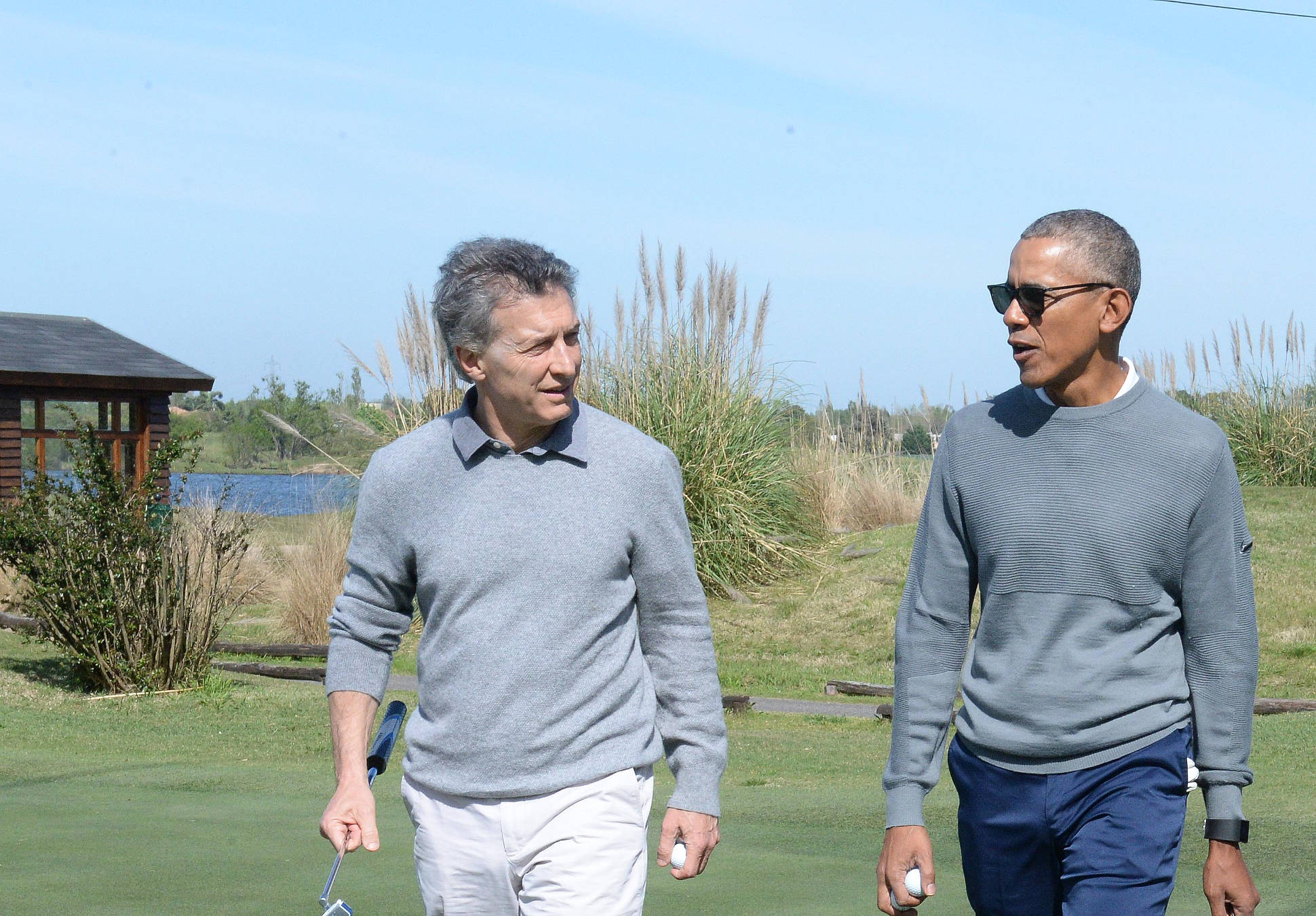 President Mauricio Macri was visited by the former President of the United States Barack Obama, who arrived in the country in order to speak in the Córdoba Province in the Green Economy Summit. The meeting took place at the facilities of the Buenos Aires Golf Club, in Bella Vista, San Miguel, Buenos Aires Province.